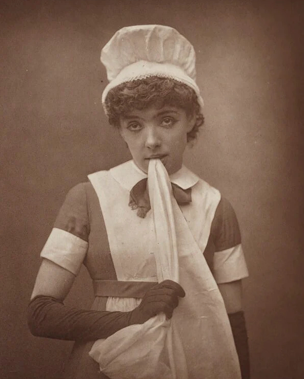 Jessie Bond as Constance in The Sorcerer (1884)